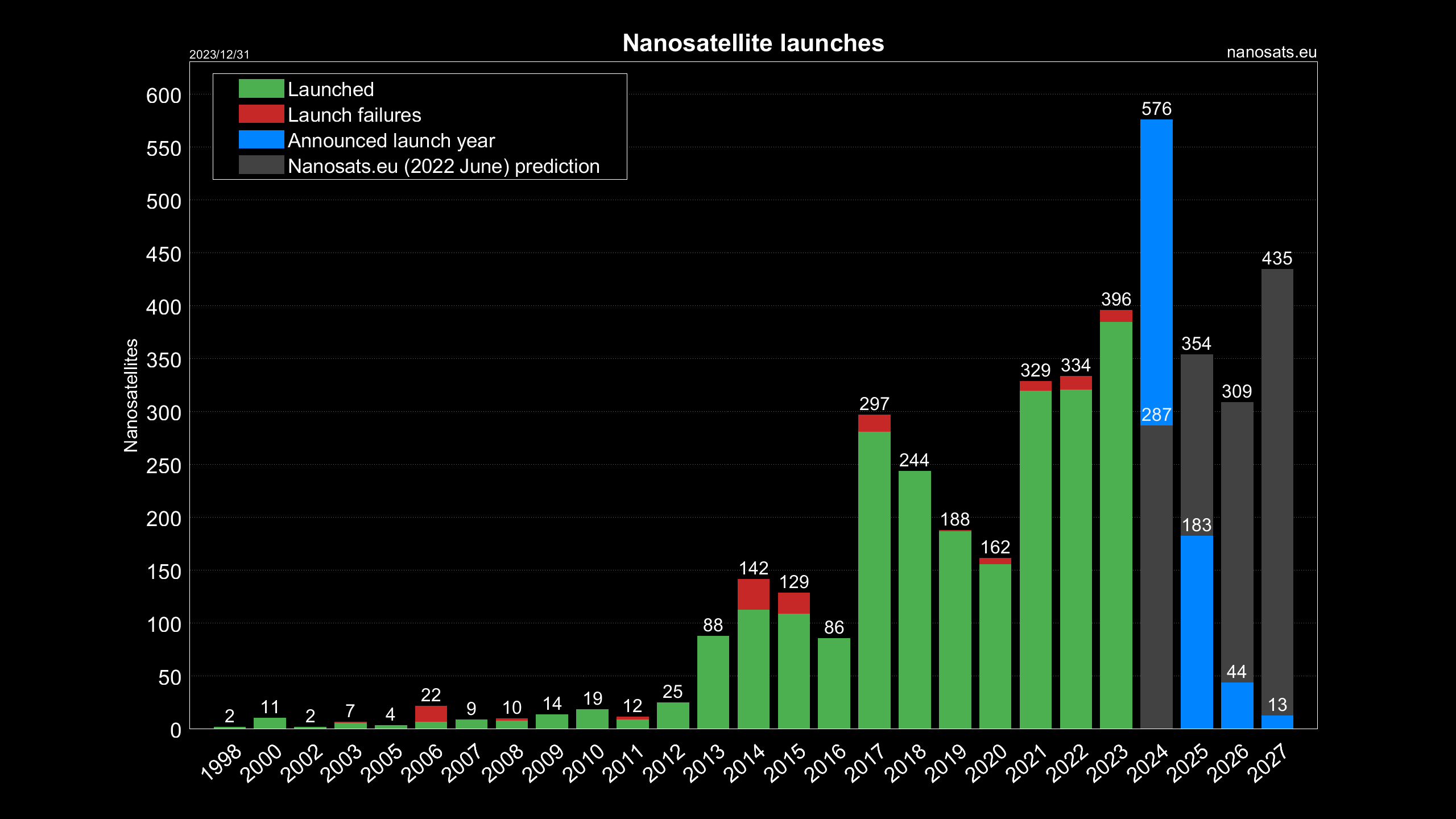 Launched, planned and predicted nanosatellites.